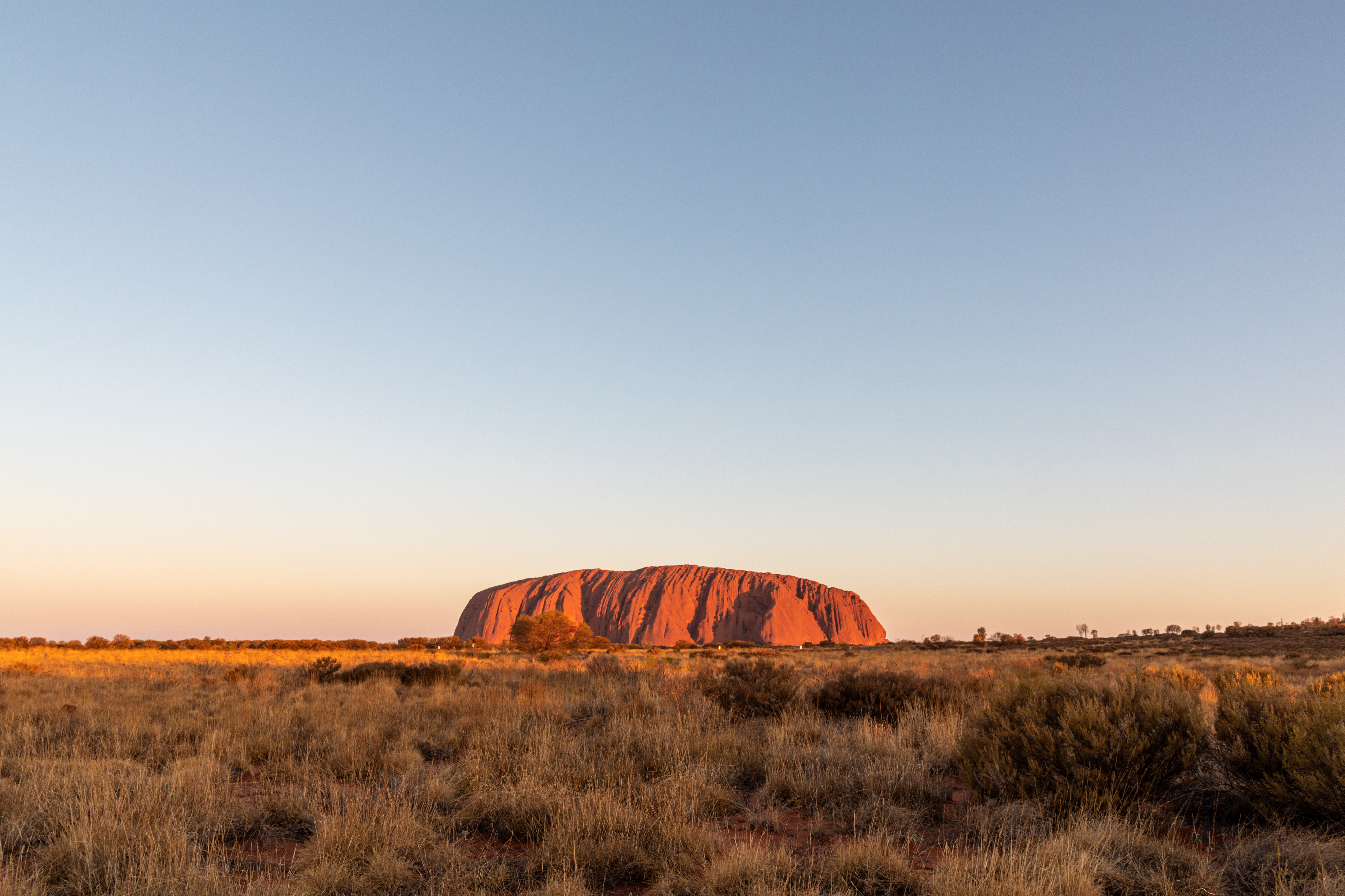 Uluru (Ayers Rock) in Uluṟu-Kata Tjuṯa National Park at sunset, Petermann Ranges, Northern Territory, Australia